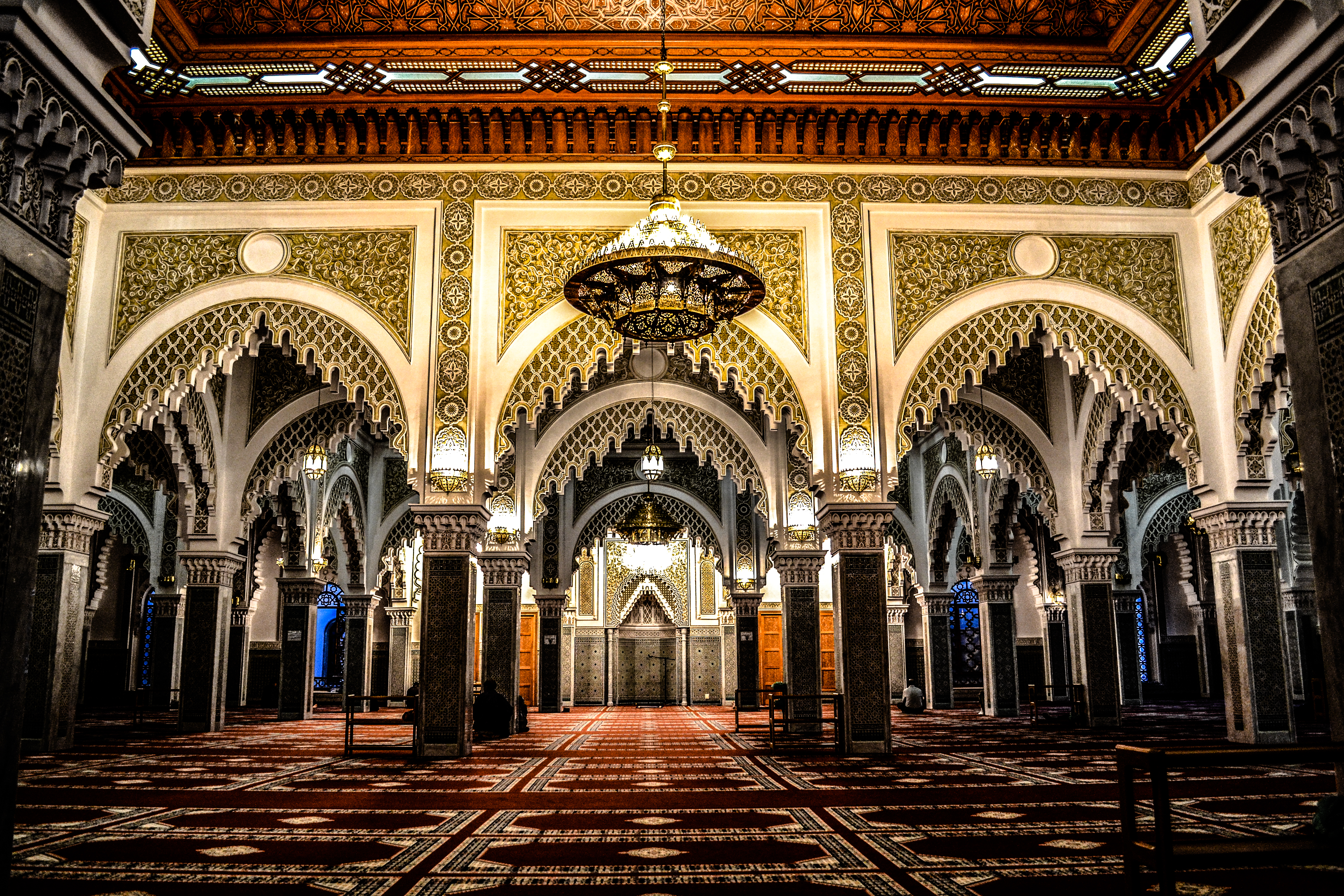 Mohammed VI Mosque, Oujda, Morocco